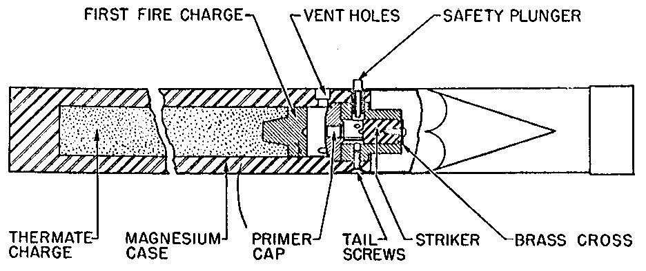 US incendiary AN-M52, 2 lb, (0.9 kg, containing 0.18 kg Thermit)